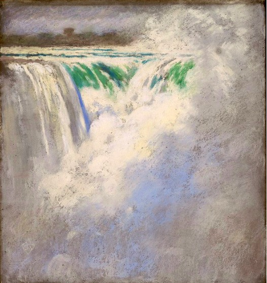 Niagra Falls pastel drawing 1898, Fogg Museum, Harvard Art Museum, Boston